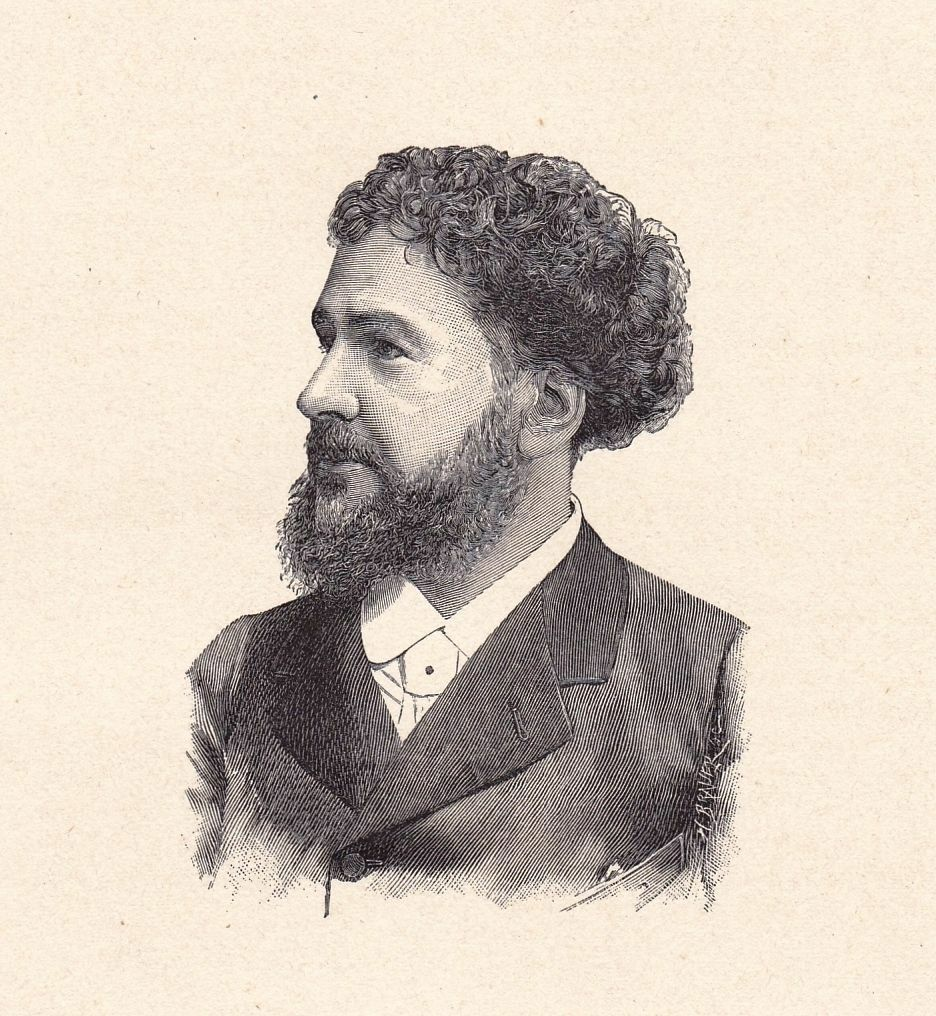 Portrait of Octave Uzanne, from Figures contemporaines, tirées de l'album Mariani. Paris : E. Flammarion : 1894, t. 1. Engraver Henri-Othon Brauer from photograph.